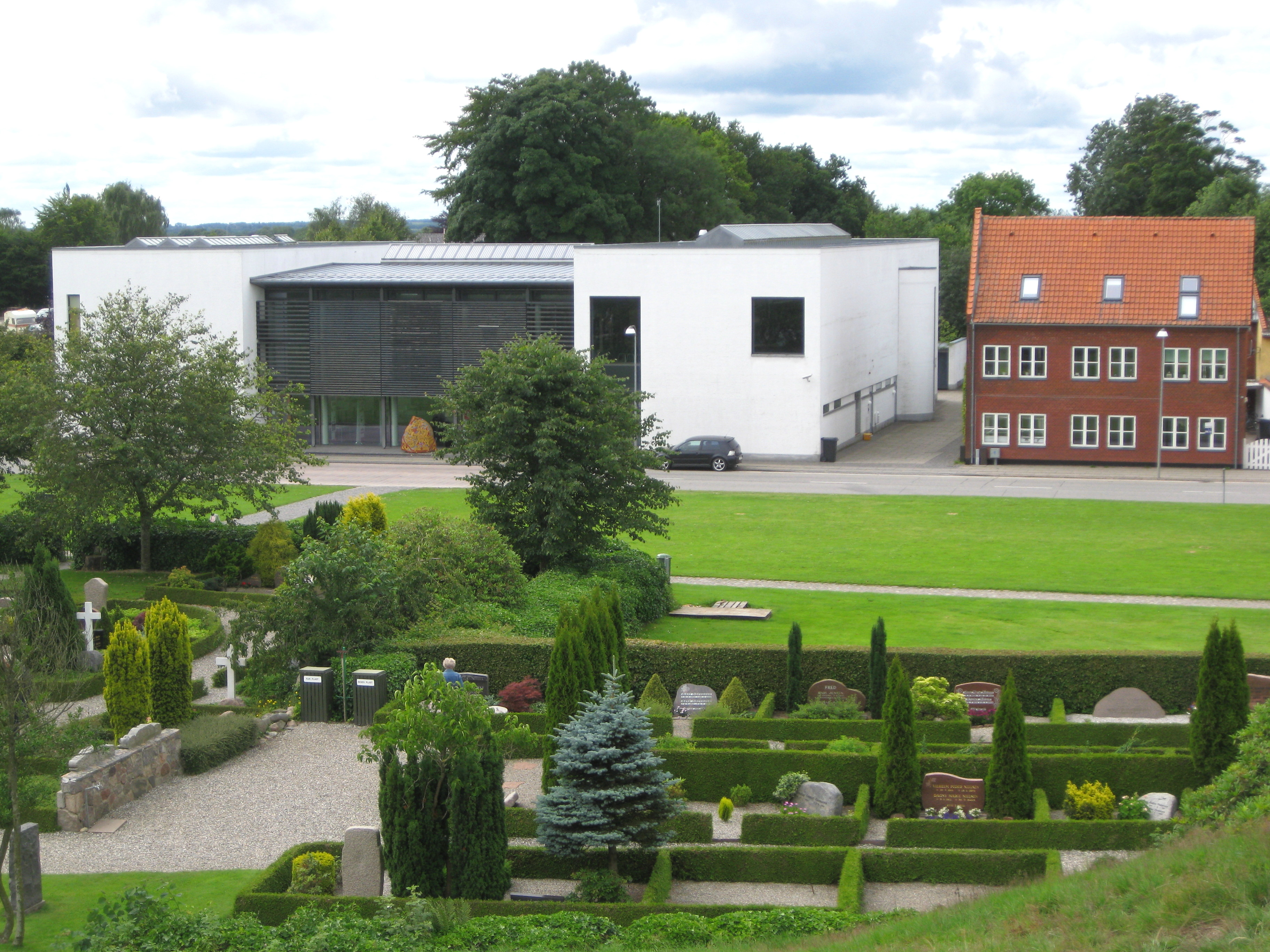 The museum "Kongernes Jelling" in the small town "Jelling". The town is located in South-Central Jutland in south Denmark.